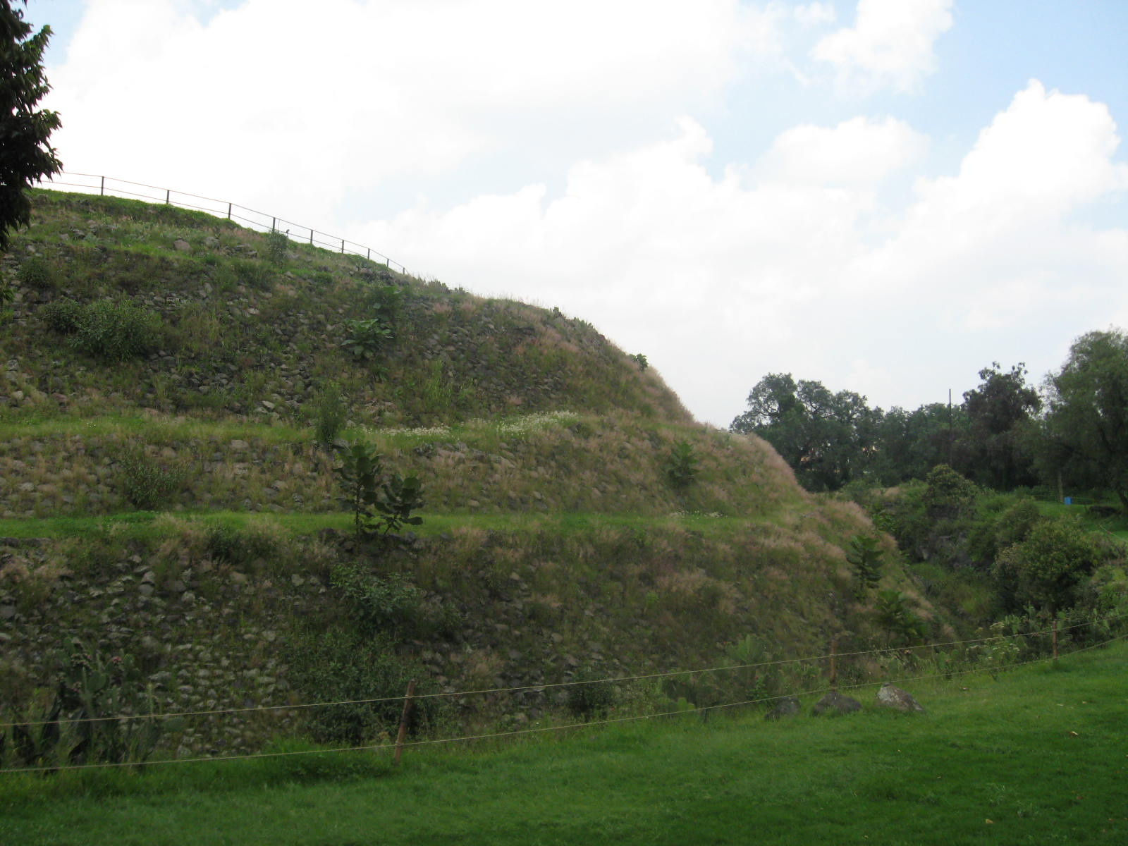 South side of the Cuicuilco pyramid located in the Tlalpan borough of Mexico City